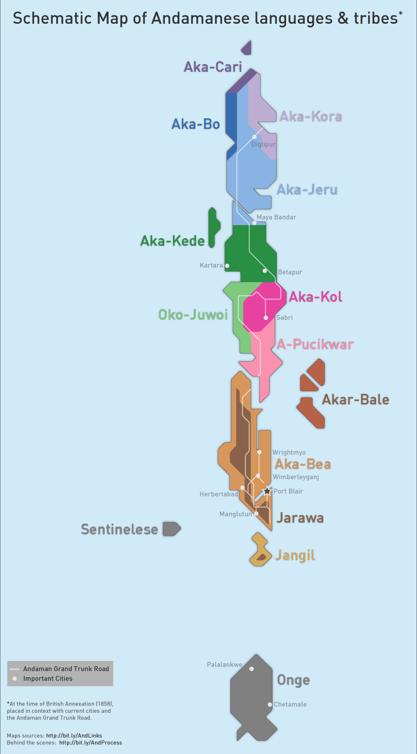 Schematic Map based from the time of British Annexation (1851), along with current cities and the Andaman GT Road.